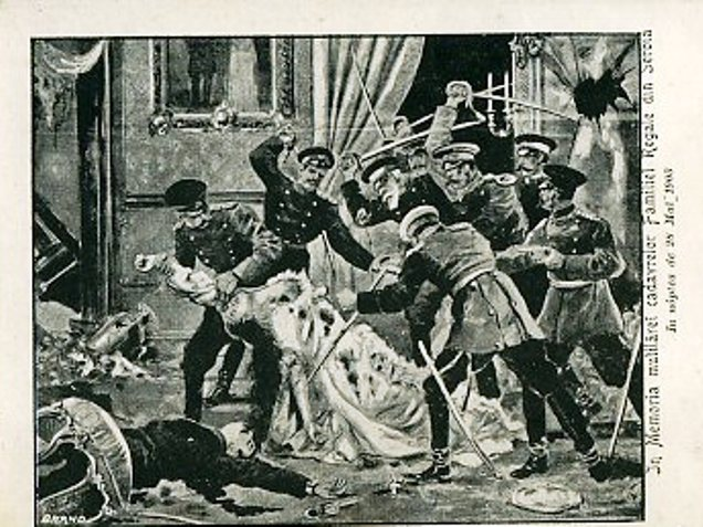 Scene of May Overthrow massacre from Italian newspapper.